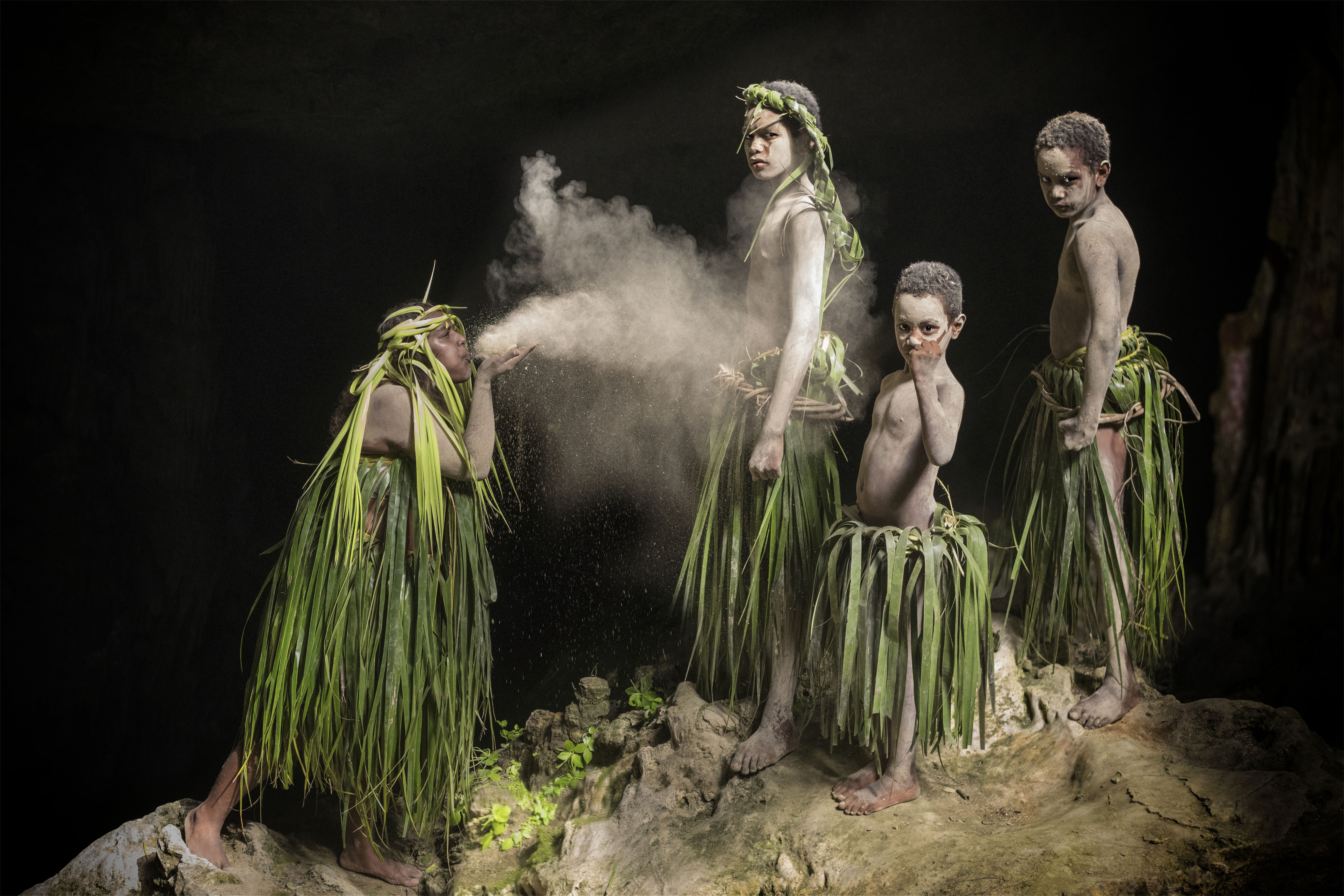 The legend of Sonedrë, a Wetr creation tale dance in Lifou, New Caledonia, Melanesia. Two brothers Hlemusesë and Caa Penehe set out to conquer a divine beauty in Heo. The child Wetr born of the breath of Sonedrë and the word of the Grand Chief. Photo taken in the cave of the Kirinata tribe in Lifou. Photo taken during the filming of Isa Qala's "Wetr child".